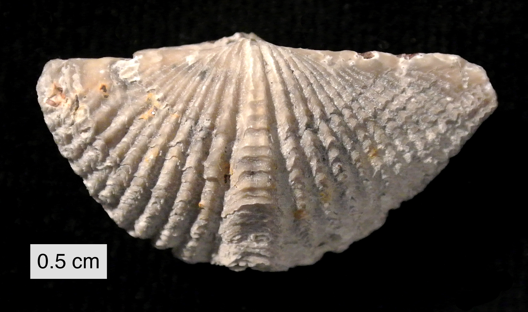 Mucrospirifer mucronatus (Conrad, 1841) from the Silica Shale Formation (Middle Devonian) in Paulding County, Ohio. Dorsal valve view.